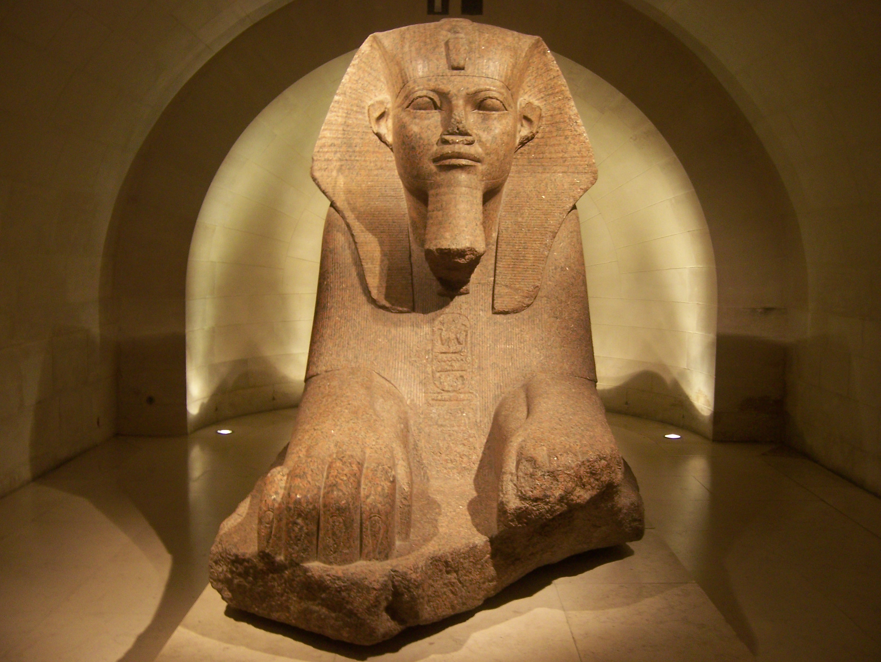 Great sphinx bearing the names of Amenemhat II (12th Dynasty), Merneptah (19th Dynasty) and Shoshenq I (22nd Dynasty).